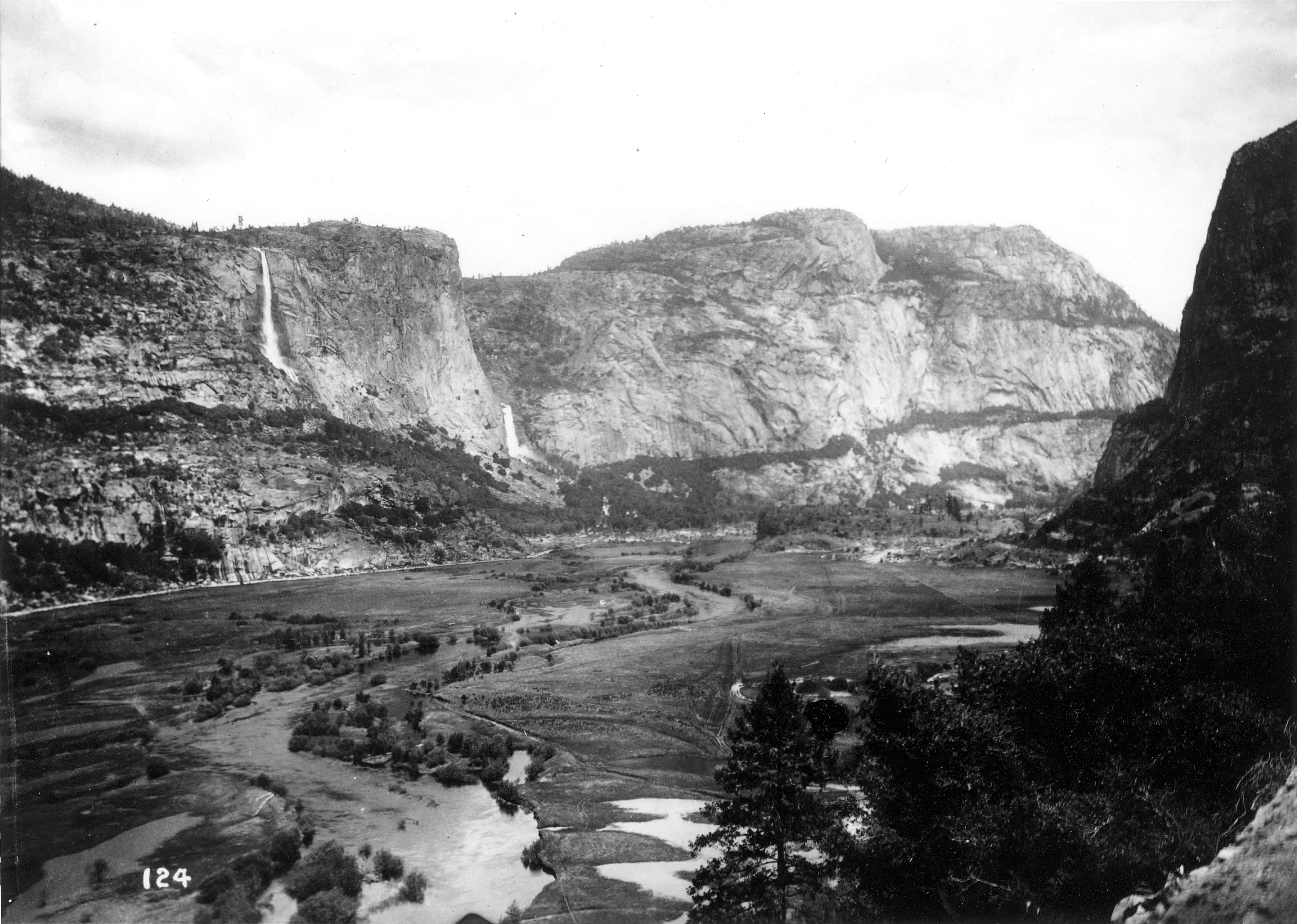 View across Hetch Hetchy Valley, early 1900s, from the southwestern end, showing the Tuolumne River flowing through the lower portion of the valley prior to damming.